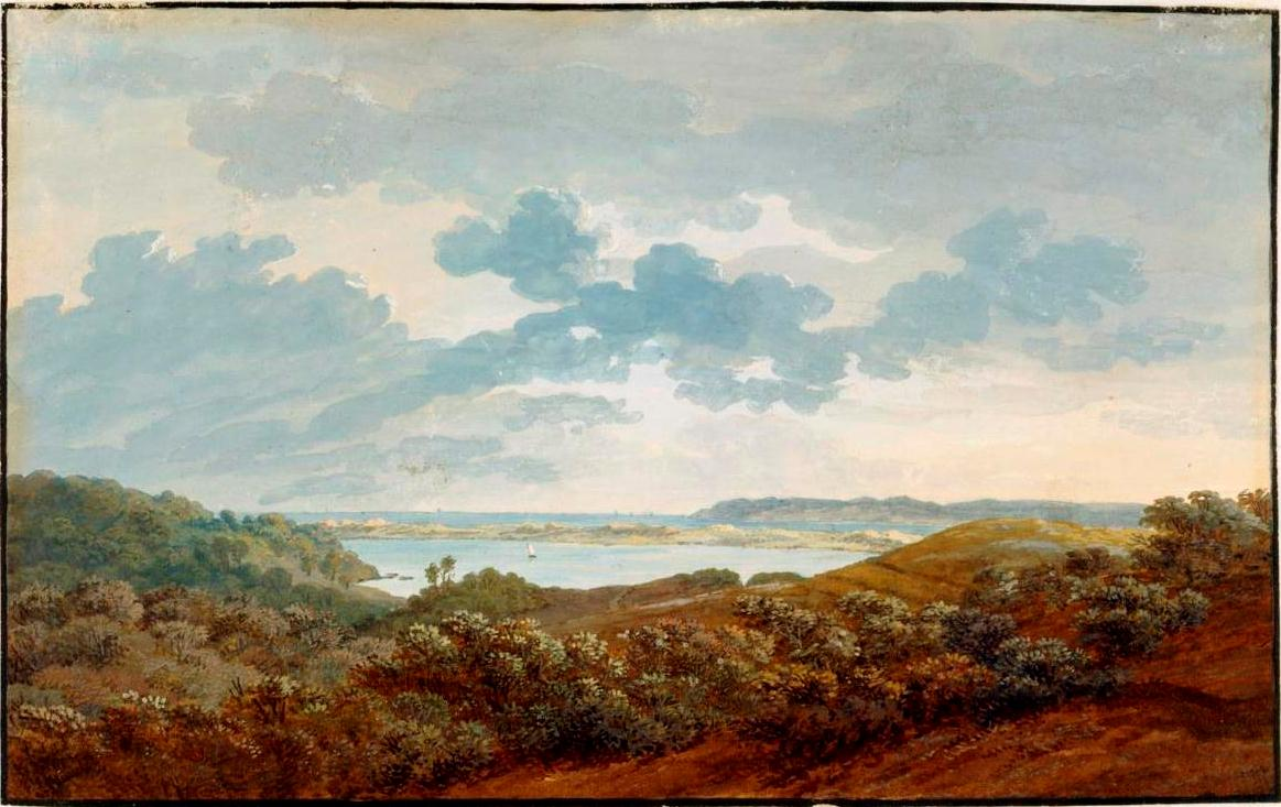 Probably a view from the Great Zicker (Mönchgut) on the south neighboring lagoon landscape of the Bay of Greifswald